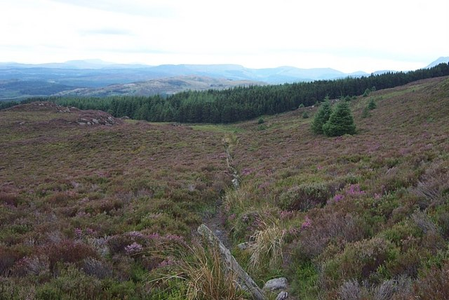 Footpath through Heather Moorland. The footpath taken at grid reference SH 74172 62281 can be seen in the moorland heather running South to the forest which lies Northwest of Llyn Crafnant.